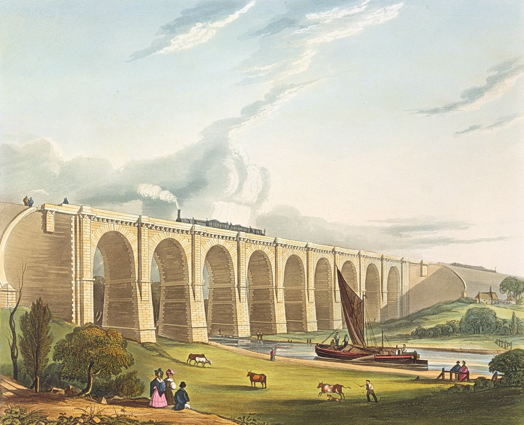 The Sankey Viaduct where the Liverpool and Manchester Railway crosses the Sankey Canal at a height of 70 ft (21.3 m), allowing sailing craft called Mersey Flats to pass underneath.